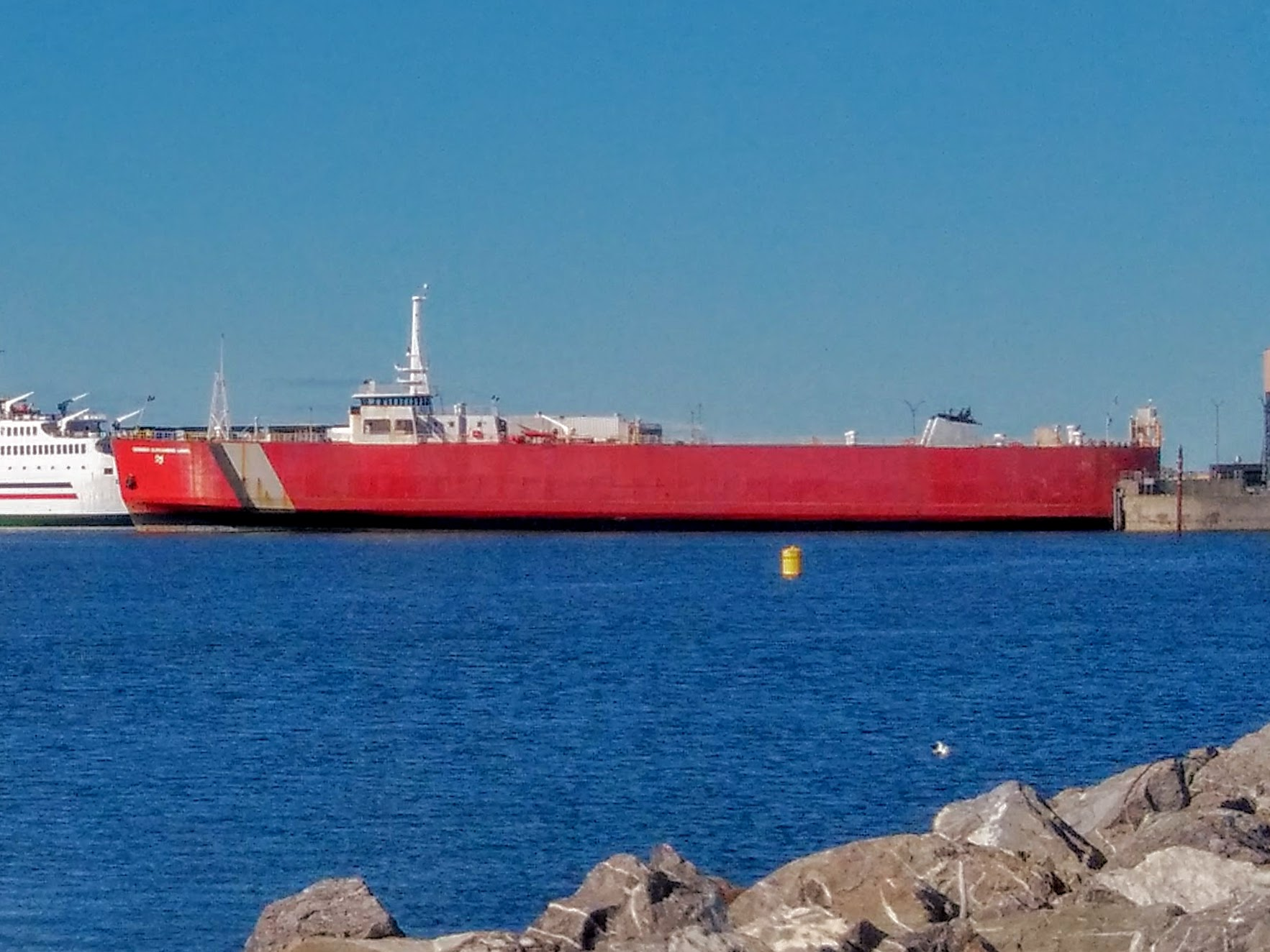 MV Georges-Alexandre-Lebel, rail ferry operating on the Matane―Baie-Comeau―Sept-Îles route.